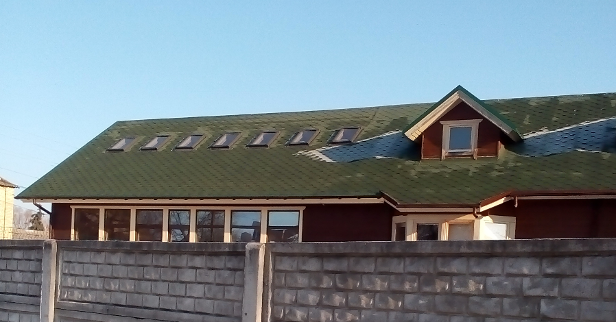 Photo of the roof of a roof covered with bituminous tile to illustrate an article on bituminous tile